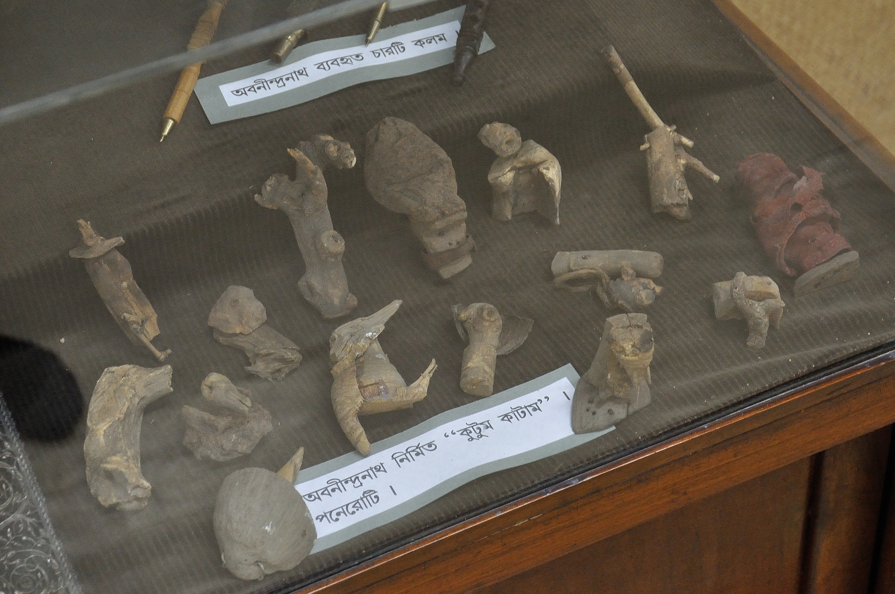 Photographed in Kolkata.